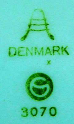 Maker's mark of the Aluminia faience factory in Copenhagen. Photograph by Lars Poulsen